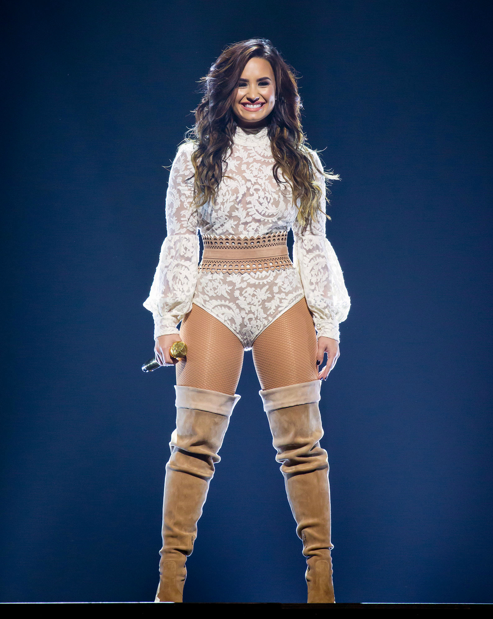 Demi Lovato performing at the AT&T Center in San Antonio, Texas on September 10, 2016.